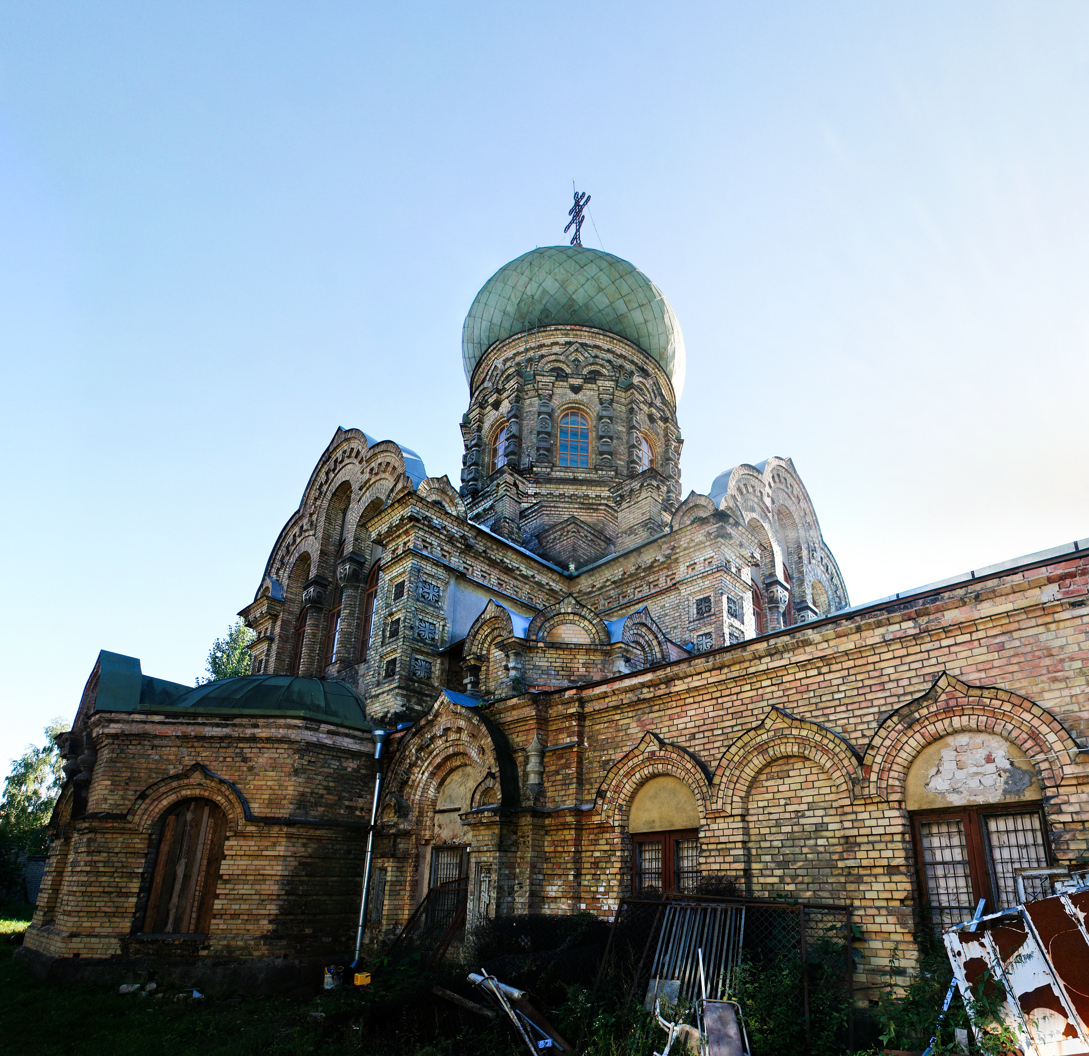 Alexander Nevsky church in Naujininkai from northeast